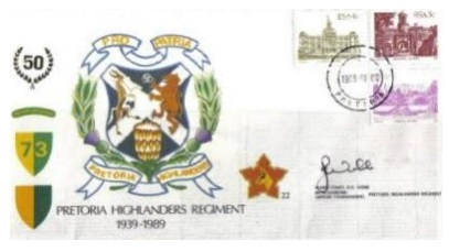 SADF 73 Brigade Pretoria Highlanders Commemorative letter.